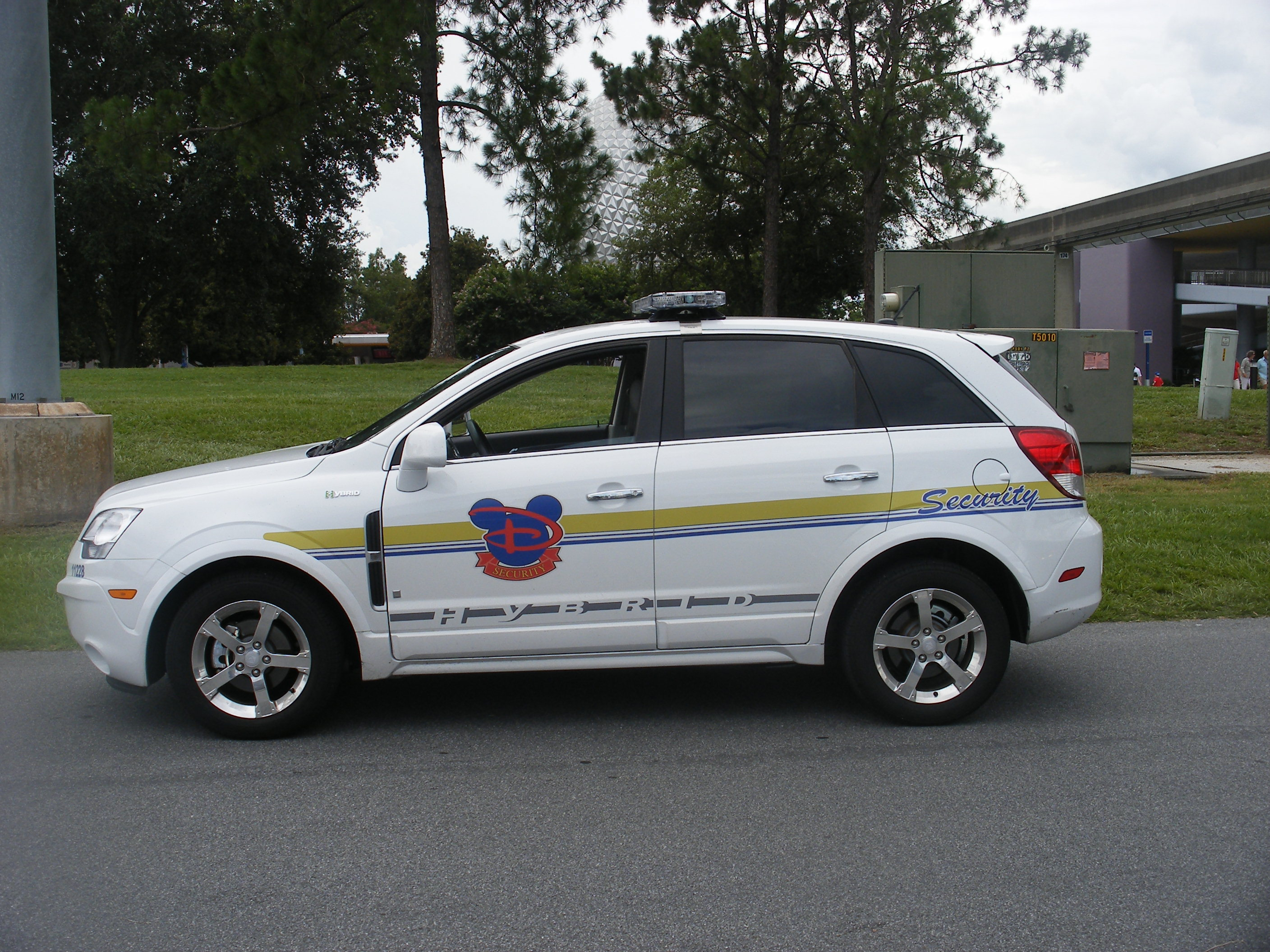 Licensing